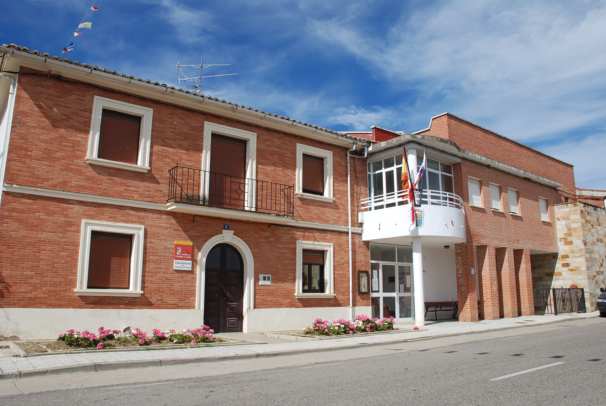 Town hall of Buenavista de Valdavia (Palencia, Castile and León).